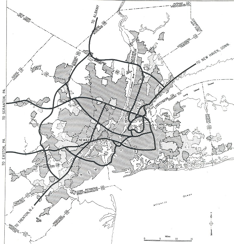 Interstates in today's terms I-78 (only built west of downtown, except for several renumbered sections) I-80 I-87 I-95 I-278 (only built east of roughly I-95) I-280 (built further south, and the connection between I-280 and I-287 was never built) I-287 I-295 (built north of Hillside Avenue as I-78) I-478 (not built) I-495 (west of I-295; the part west of I-278 was not completed and is now NJ 495 and NY 495) I-678 (built further east) I-878 (built as I-78) I-895 (built south of I-95)